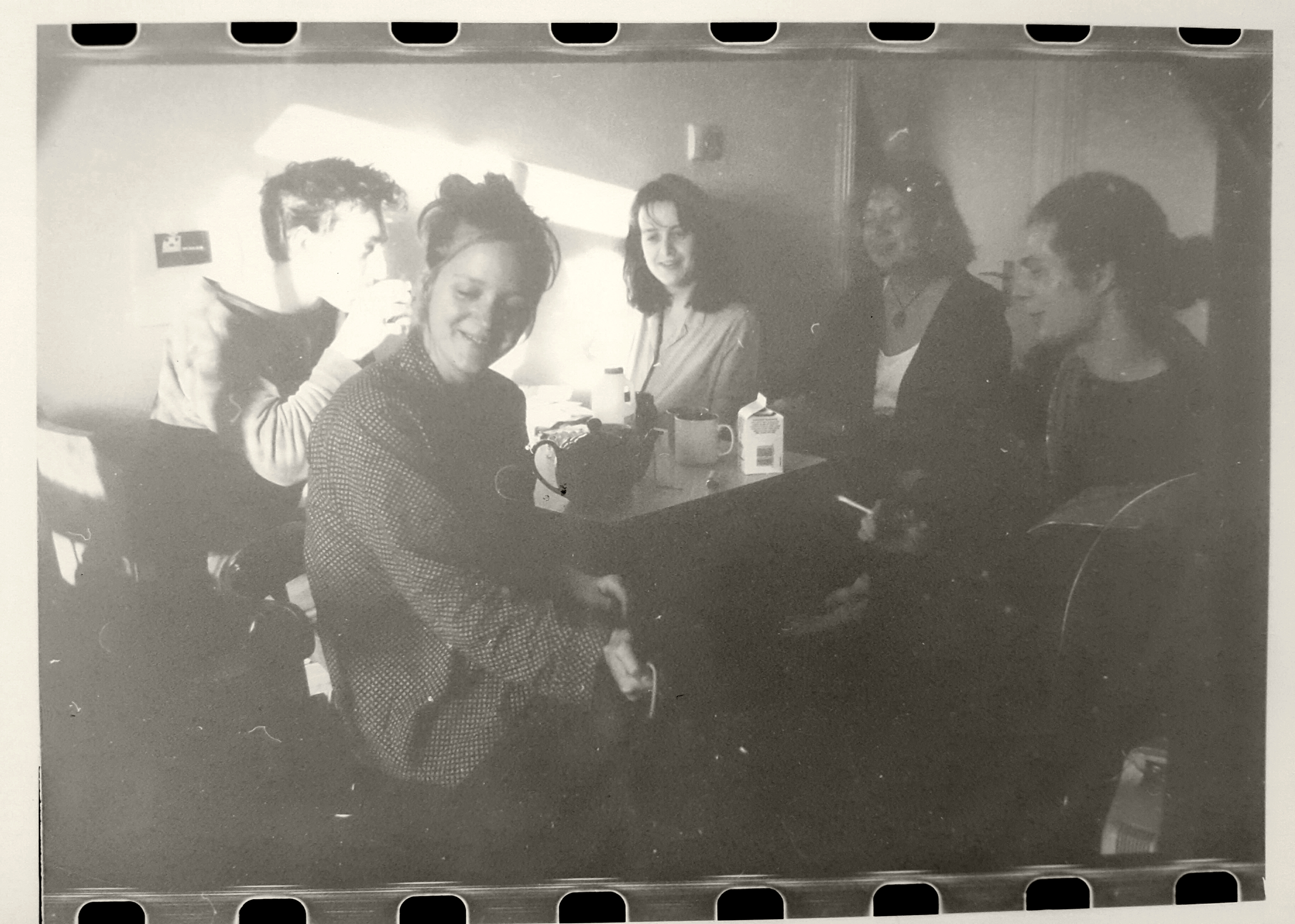 Movietone Day and Night circa 1996/7. L-R Matt Jones, Kate Wright, Rachel Brook, Florence Lovegrove, Matt Elliott. Taken by Kate Wright with a cable release. Printed by Kate Wright.